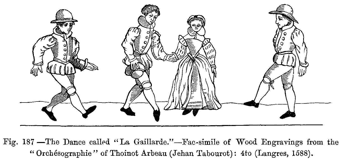 Woodcut of people dancing a galliard